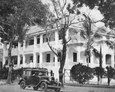 The Belgian Congo Bank in Leopoldville